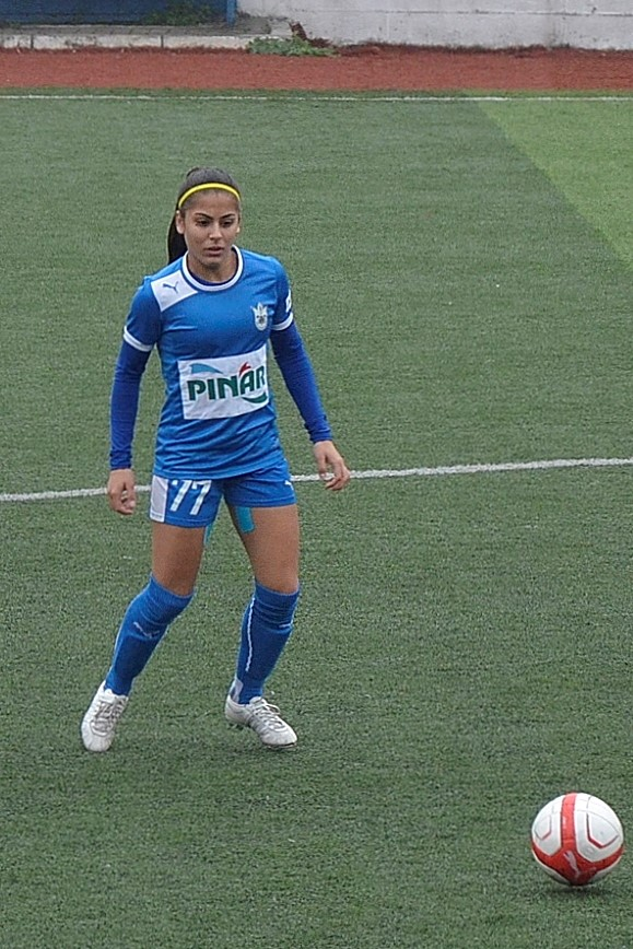 Sevgi Çınar for Konak Belediyespor in the 2013-14 season